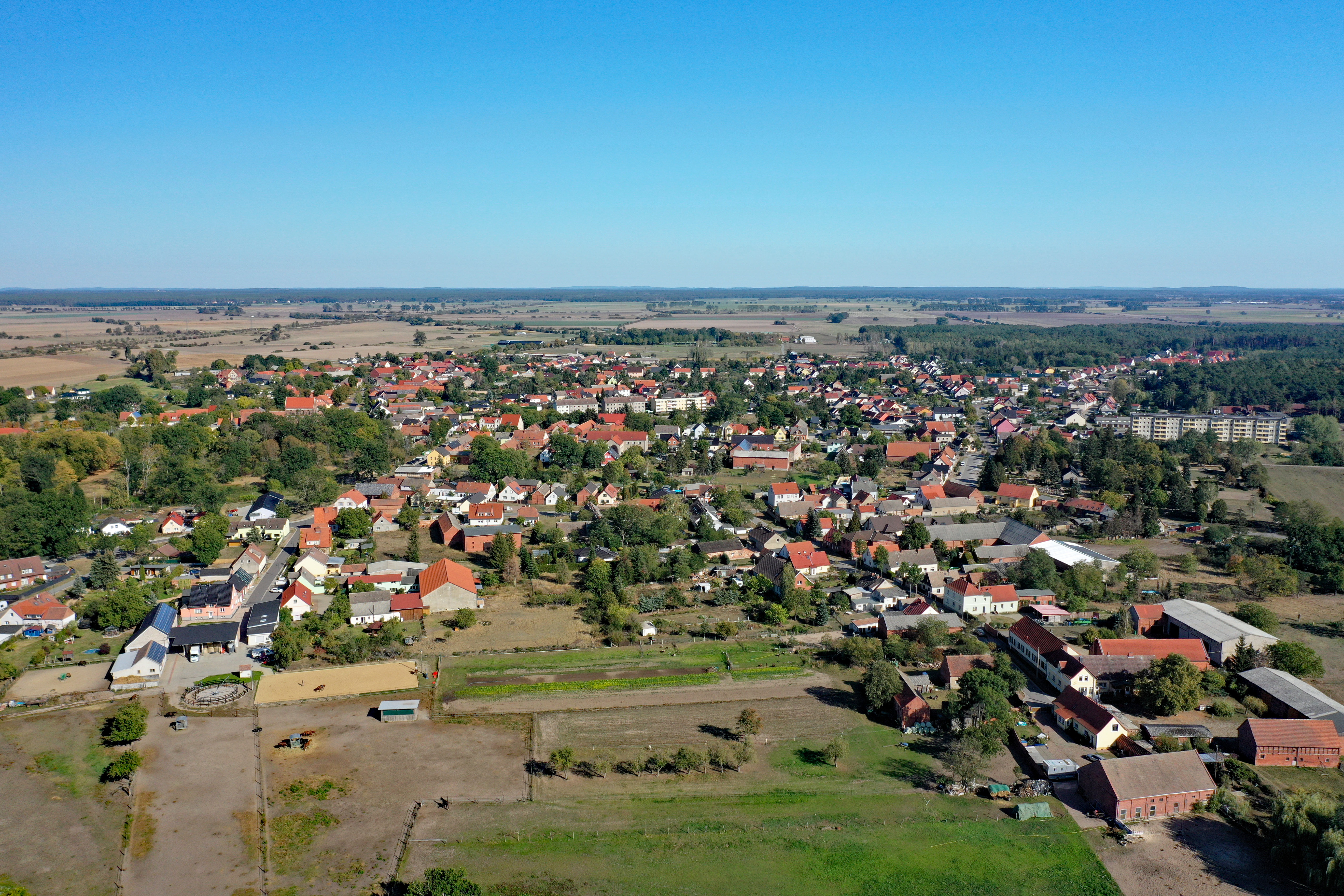 Schönhausen (Elbe), Saxony-Anhalt, Germany